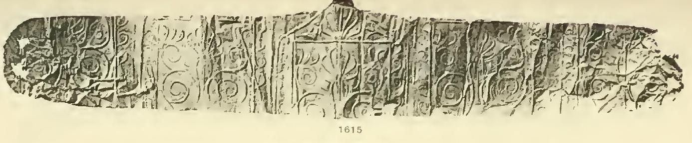 Gold diadem, in the form of a very thin strip of gold with rounded ends.